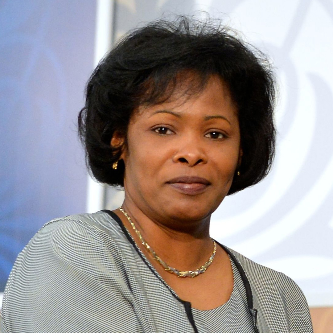 U.S. Secretary of State John Kerry presents the 2016 International Women of Courage Award to Debra Baptist-Estrada of Belize, Port Commander at Belize Immigration and Nationality, at the U.S. Department of State in Washington, D.C., on March 29, 2016. [State Department photo/ Public Domain]